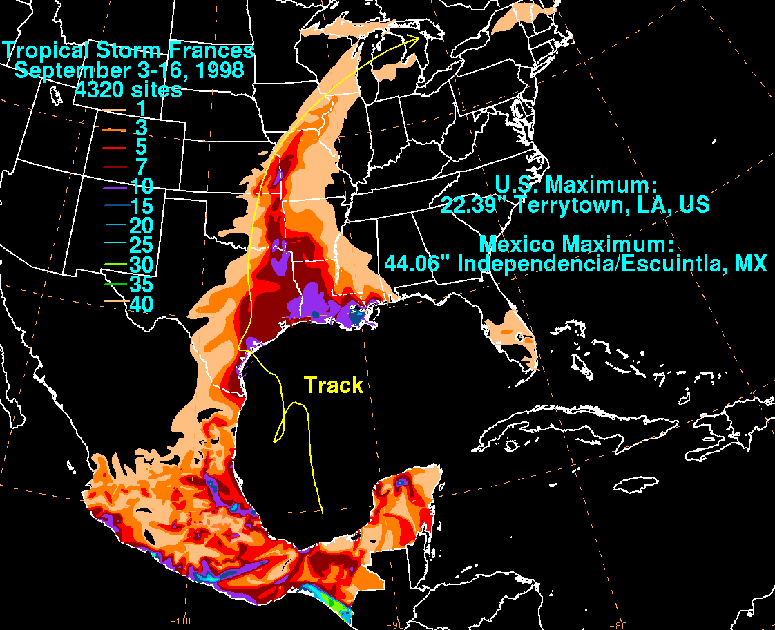 Storm total rainfall map of Tropical Storm Frances during September 1998.